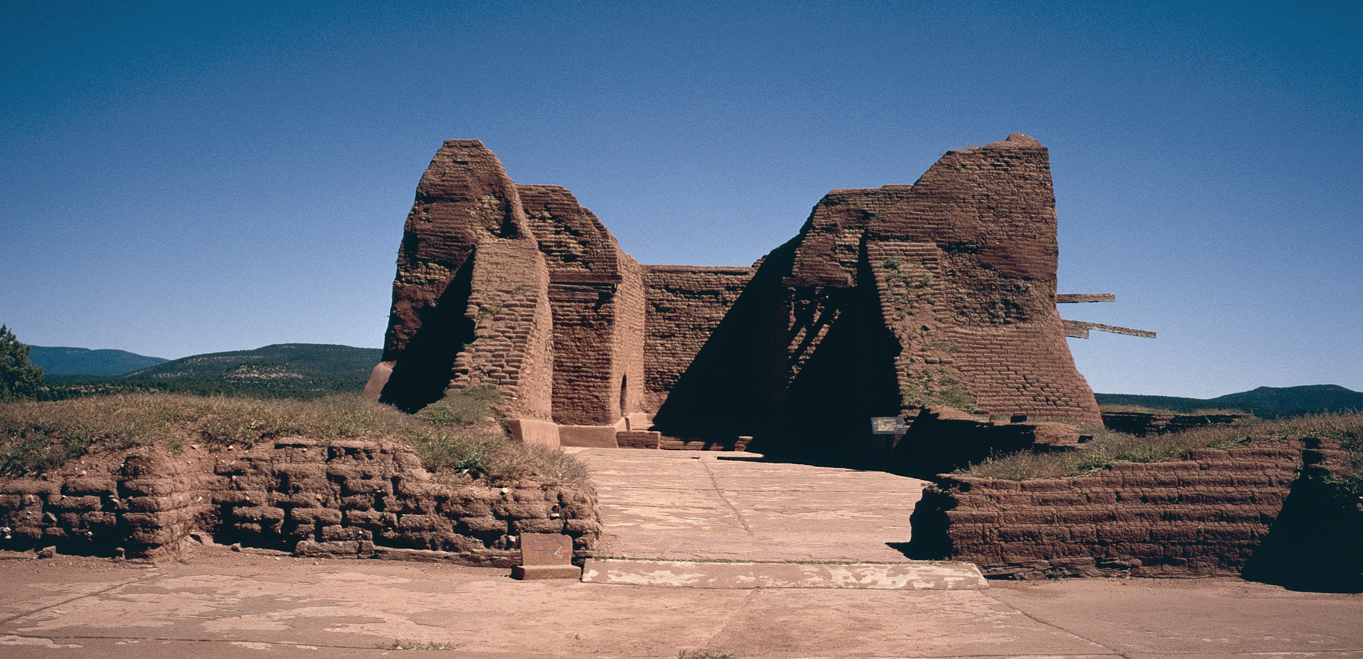 Pecos Pueblo, New Mexico, Third Mission church